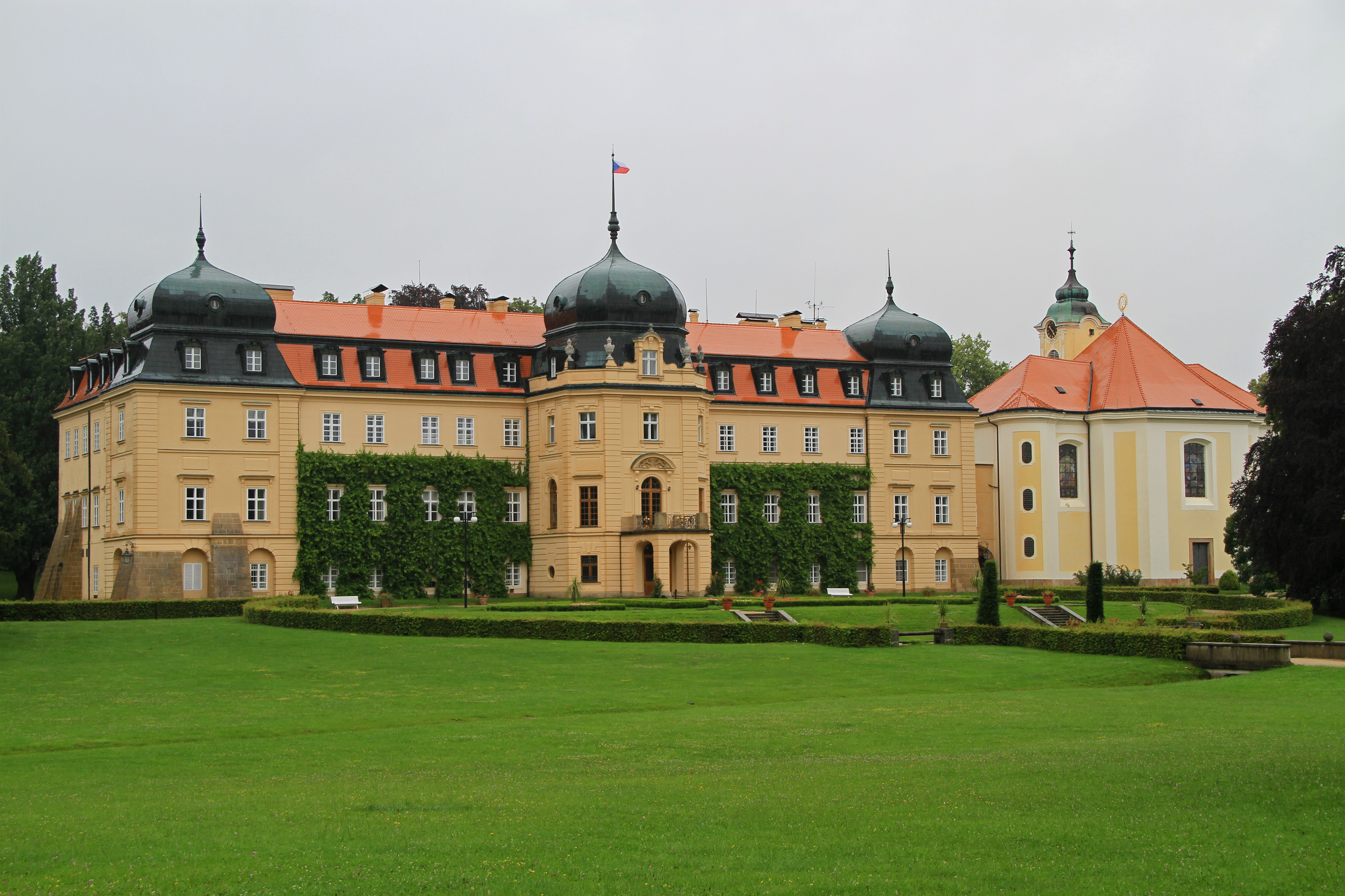 Castle Lany